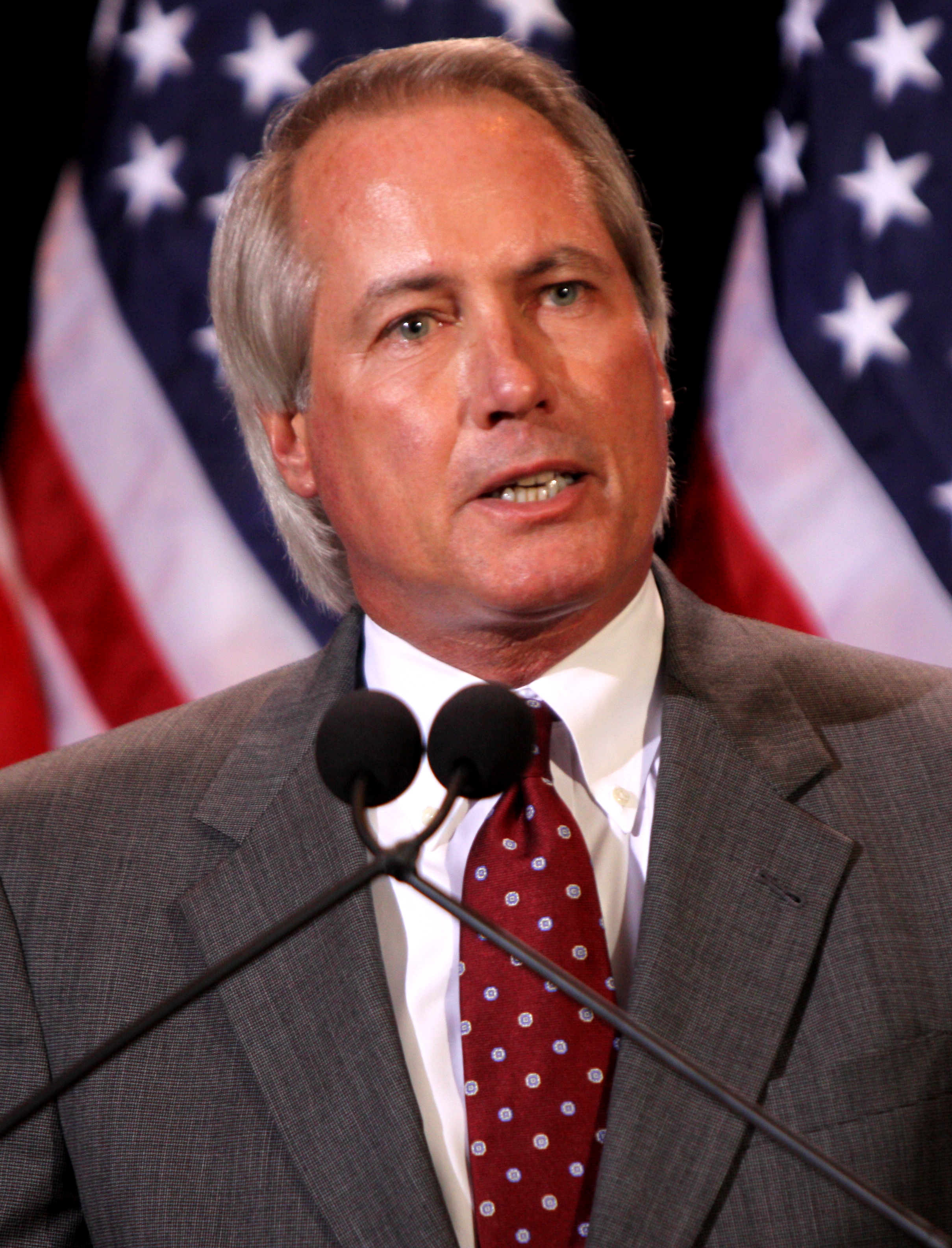 Lin Wood speaking at a press conference in Scottsdale, Arizona on November 8, 2011.